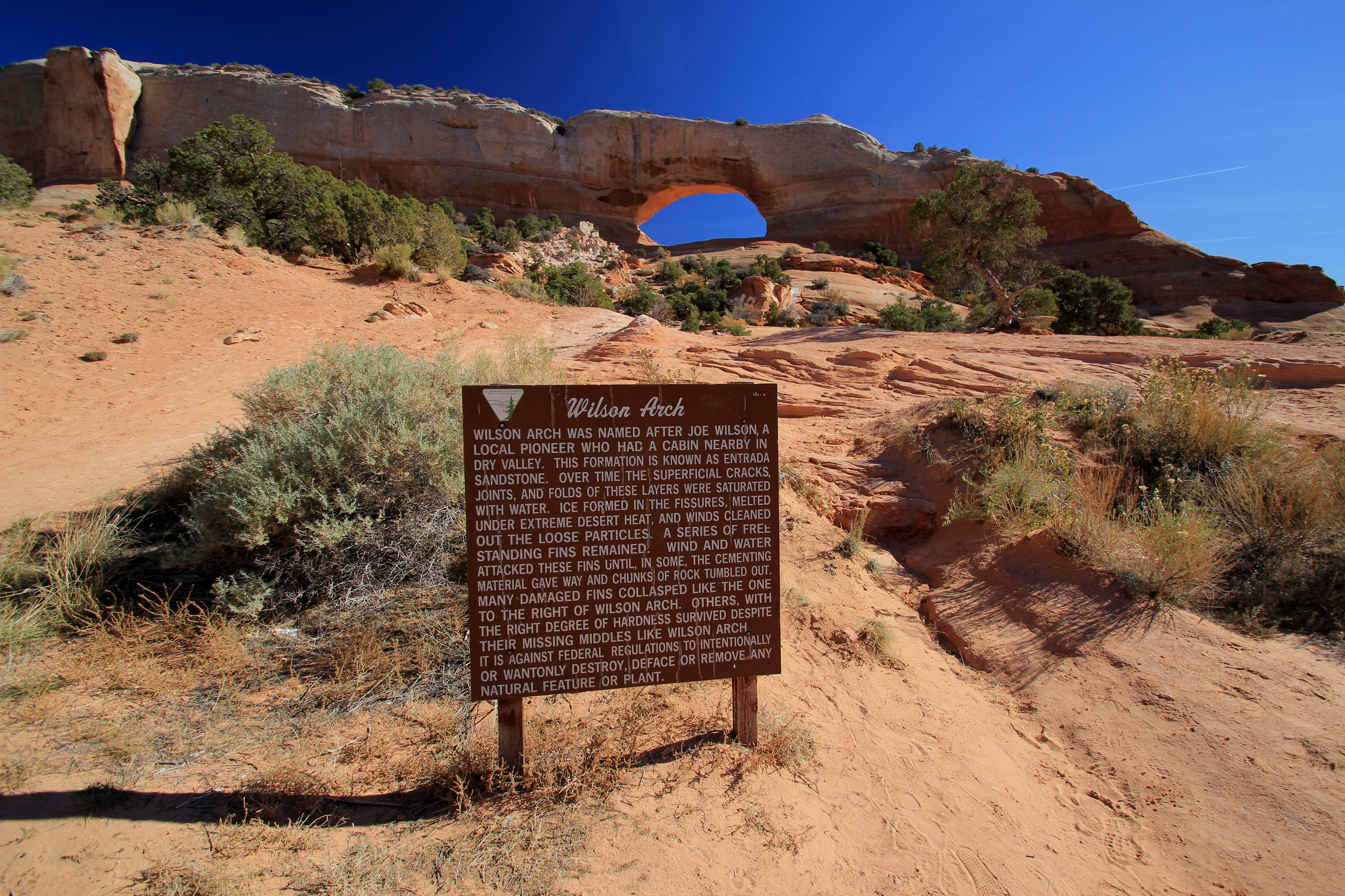 Aerial view of Wilson Arch at Highway 191 with the explanation sign